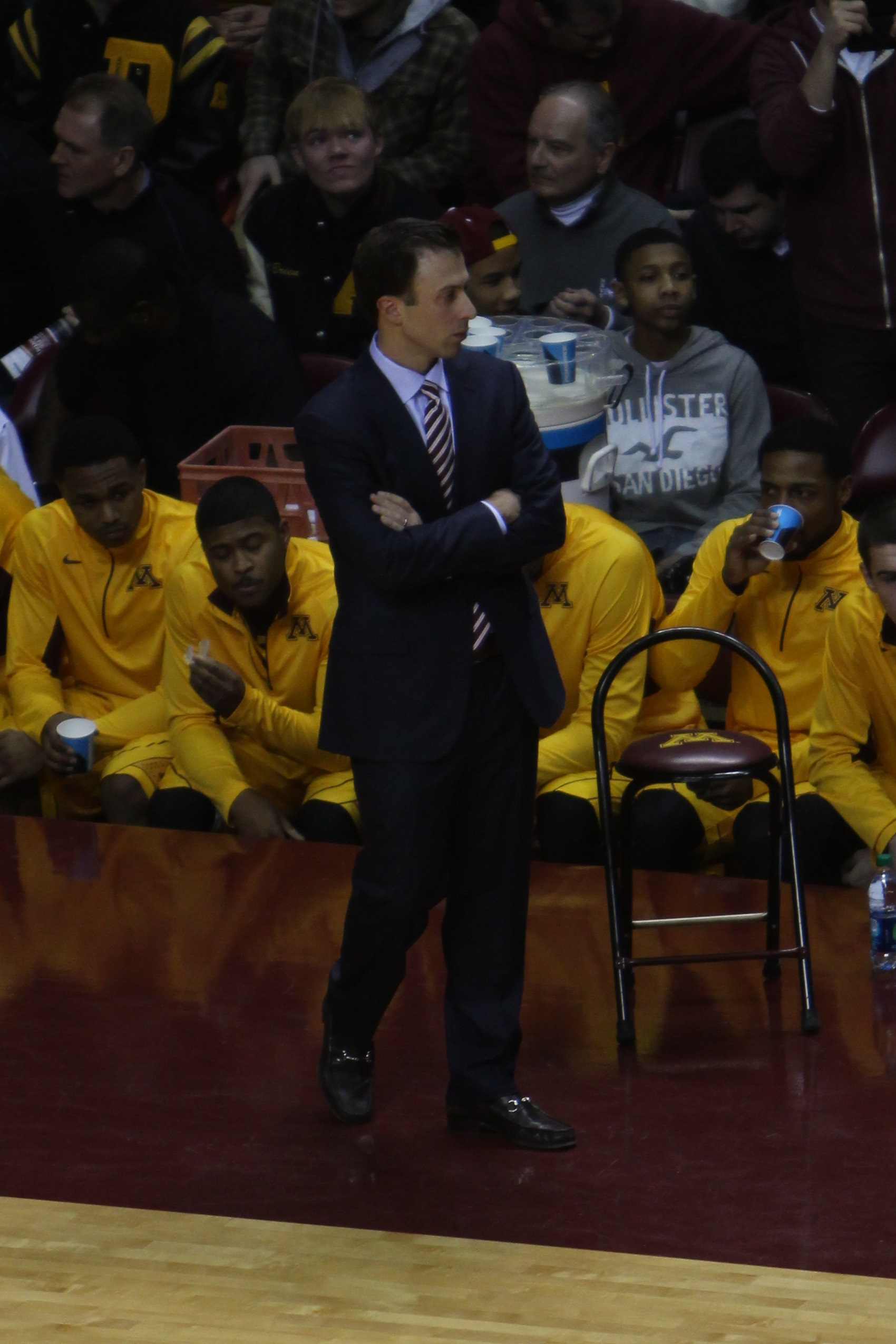 Richard Pitino at Williams Arena